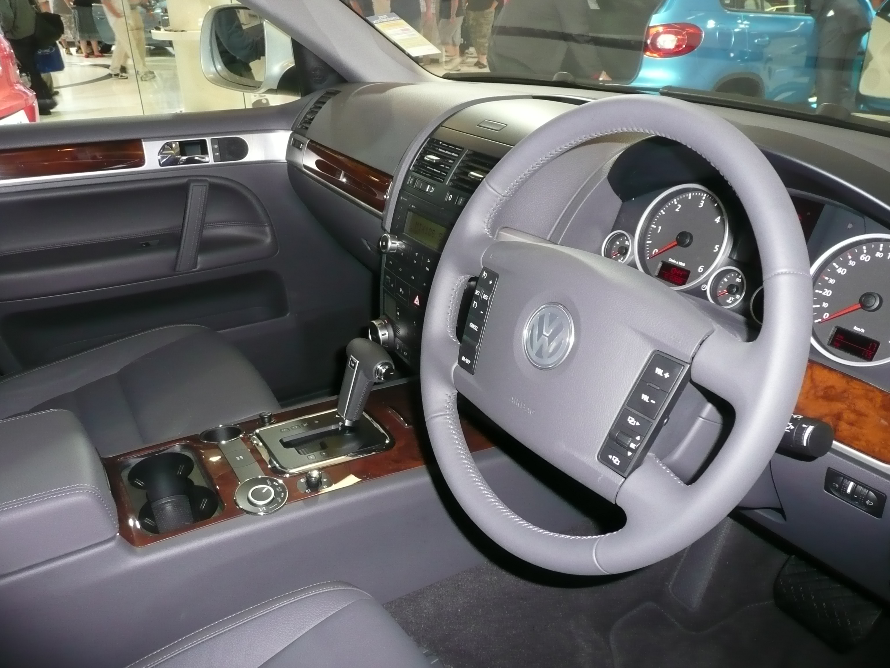 2007–2008 Volkswagen Touareg V6 TDI. Photographed at the 2008 Australian International Motor Show, Sydney, New South Wales, Australia.